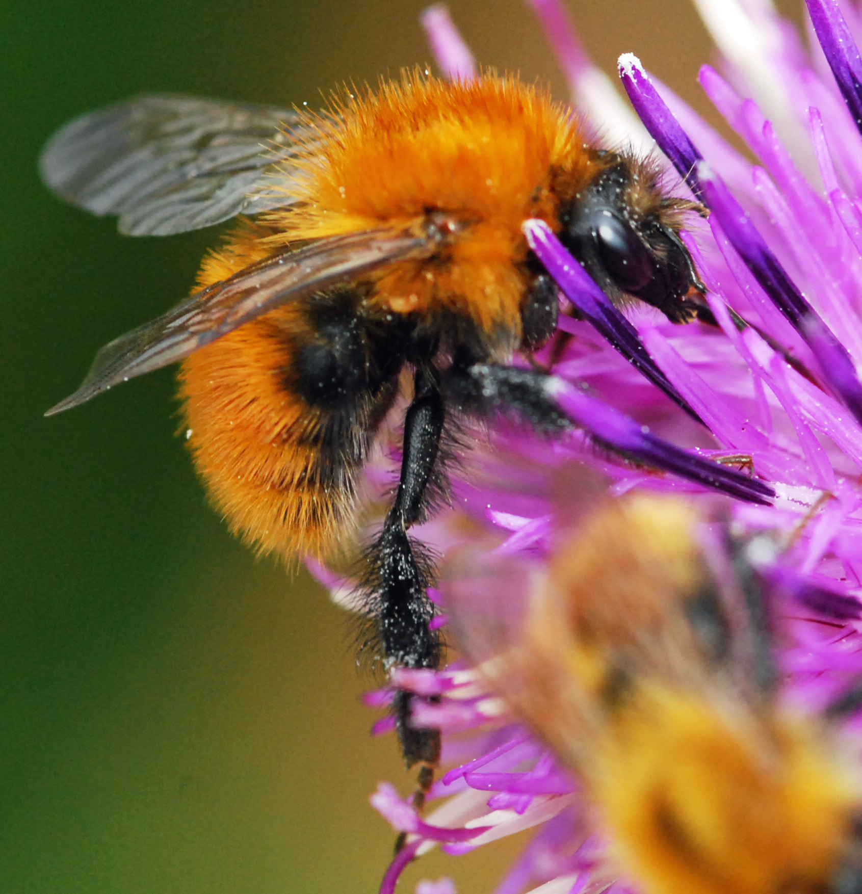 Bombus muscorum on Greater Knapweed, photographed in Holmhällar, Gotland, Sweden